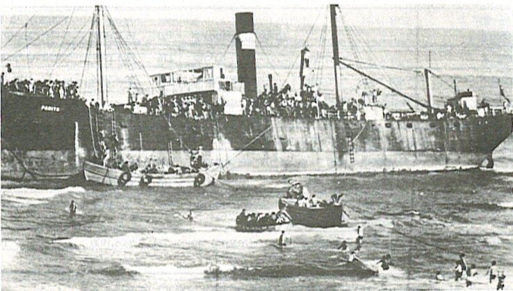 Parita, "Ha'apla" ship of "Betar" movement arriving at Tel Aviv shore.